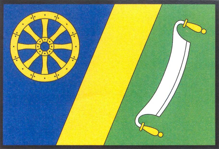 Municipal flag of Struhařov , District Prague East, Czech Republic